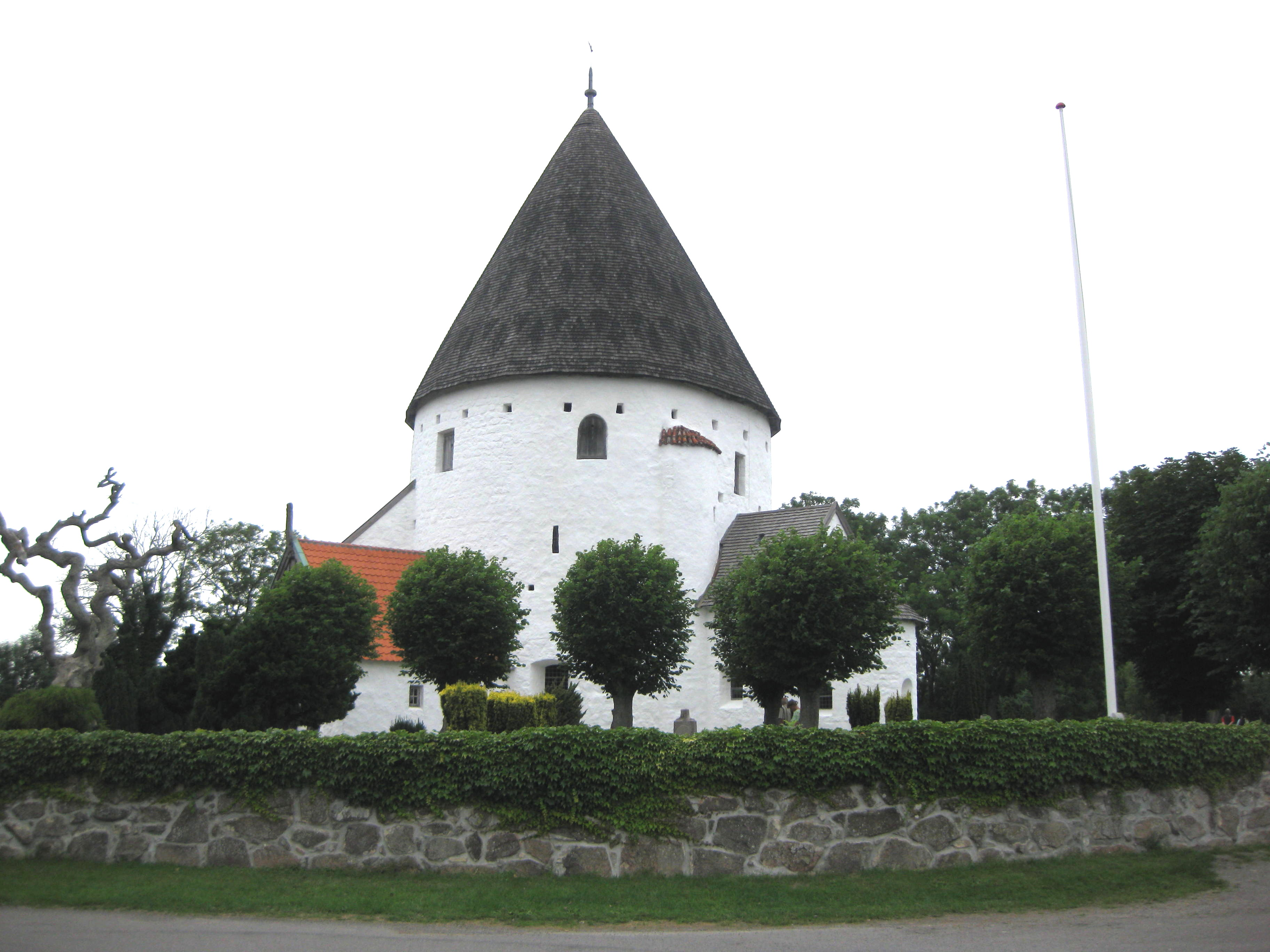 The church "Sankt Ols Kirke" on the island Bornholm in east Denmark.